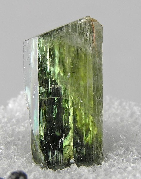 Tremolite Locality: Mt Ibity (Mt Bity), Ibity massif, Ibity Commune, Antsirabé 2 District, Vakinankaratra Region, Antananarivo Province, Madagascar (Locality at ) Size: 2.2 x 1.2 x 0.6 cm. A terminated gem crystal of tremolite from Madagascar - rather rough on the surface but absolutely gemmy, with fine bottle-green color, through the interior. [Originally uploaded as diopside. An identical crystal has been analyzed by RRUFF (RRUFF Id. Tremolite X050169) by Raman spectroscope and was found to be a tremolite]